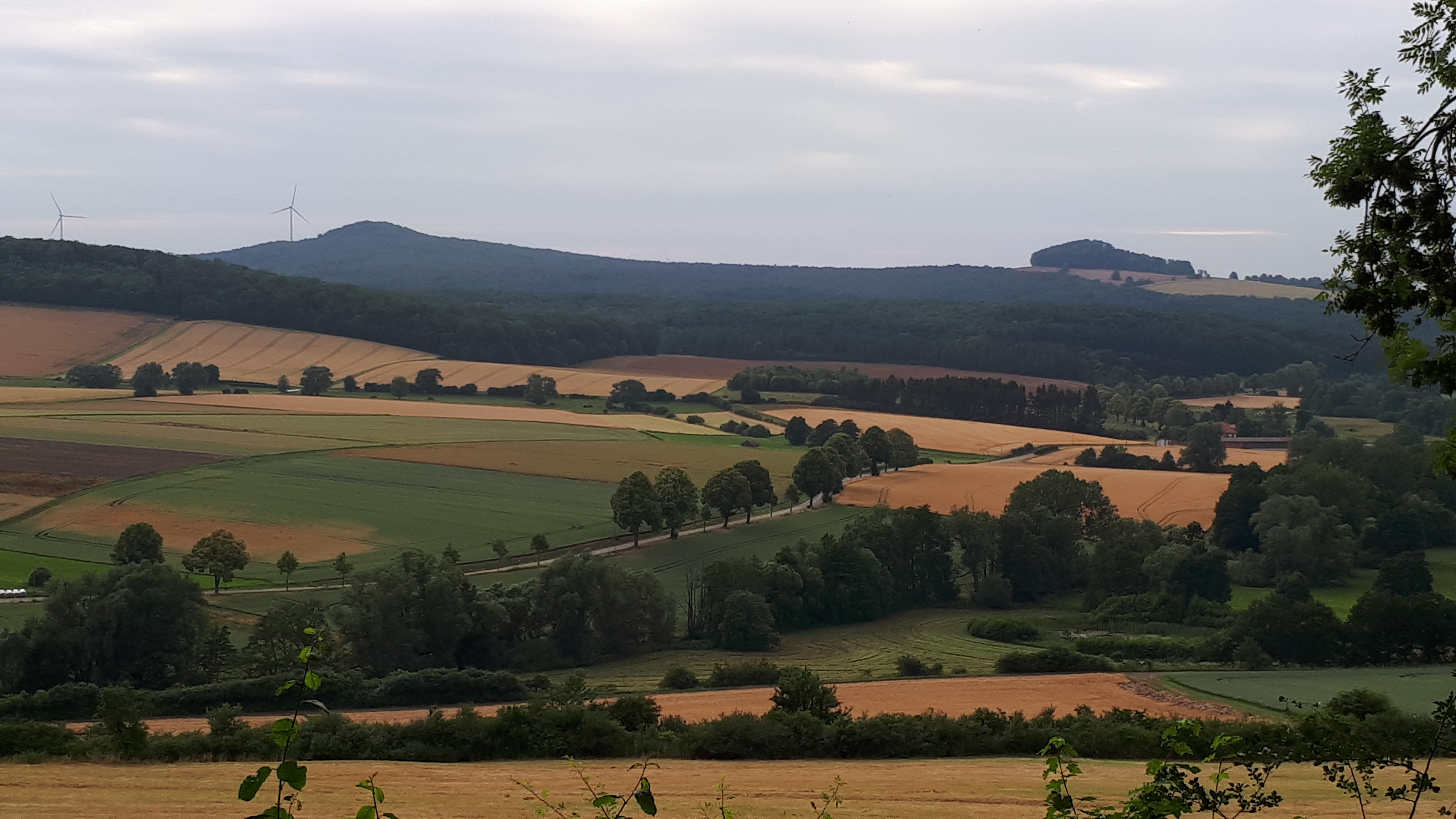 Malsburg Forest near Zierenberg, Hesse, Germany